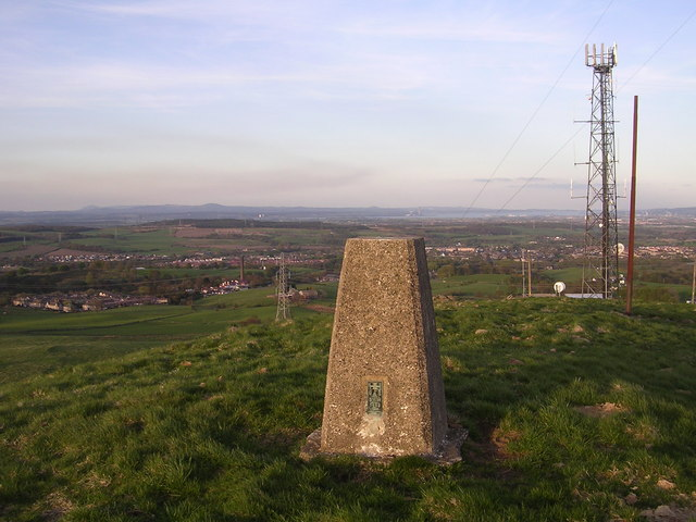 Summit of Myot Hill.